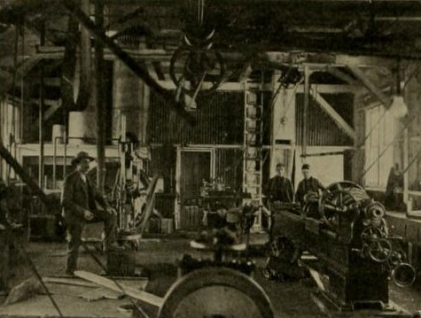 Title: The street railway review Year: 1891 (1890s) Authors: American Street Railway Association Street Railway Accountants' Association of America American Railway, Mechanical, and Electrical Association Subjects: Street-railroads Publisher: Chicago : Street Railway Review Pub. Co